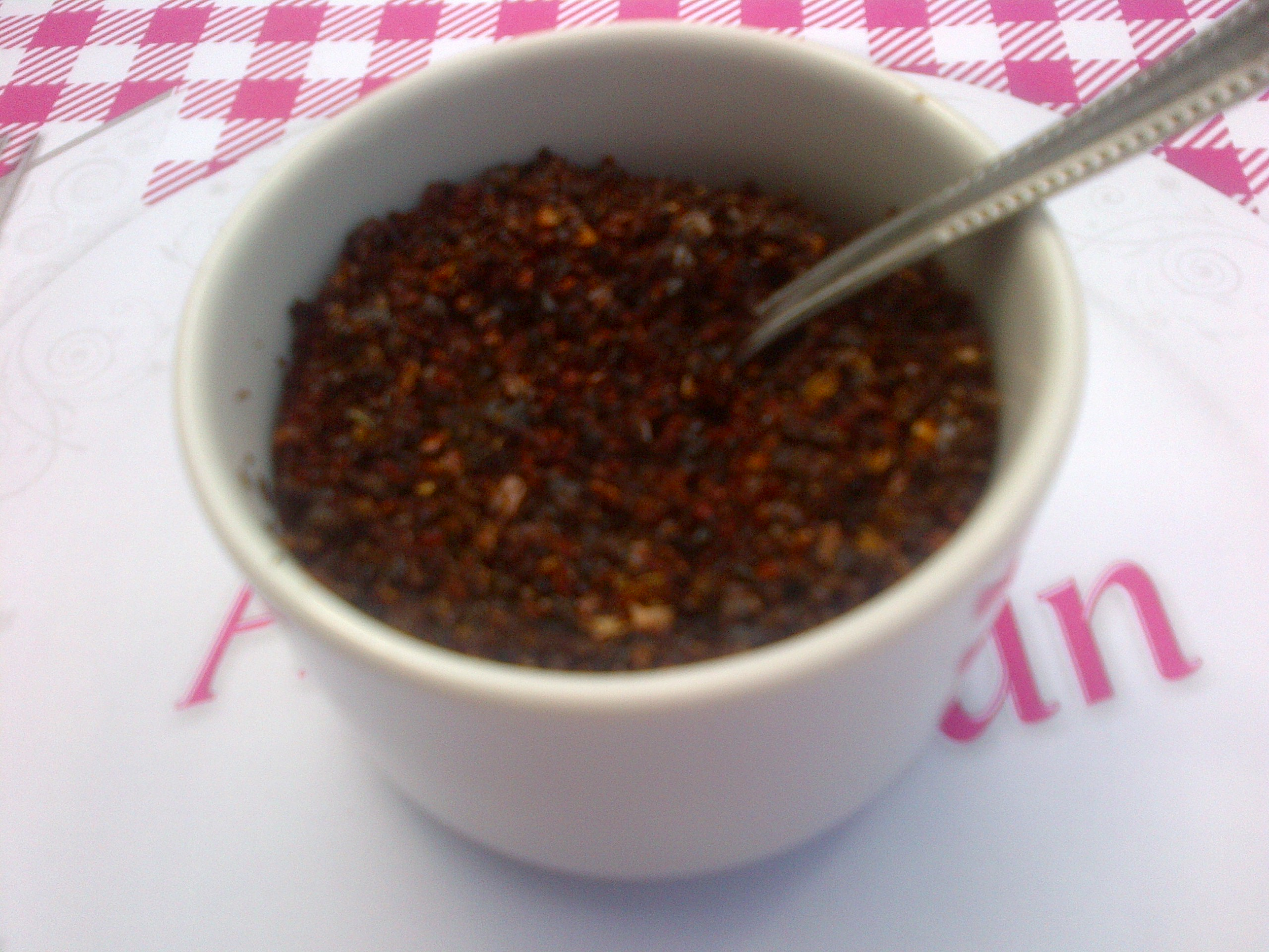 Urfa pepper or "isot" at a "kebapçı in Ankara, Turkey.